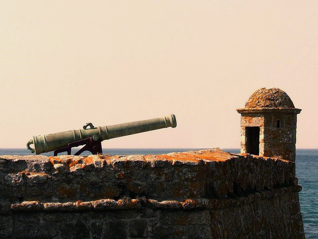 Bartizan and cannon at Ínsua Fort, Minho river mouth, Caminha, Portugal